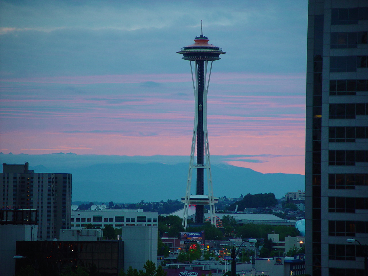 The Space Needle in Seattle at dusk